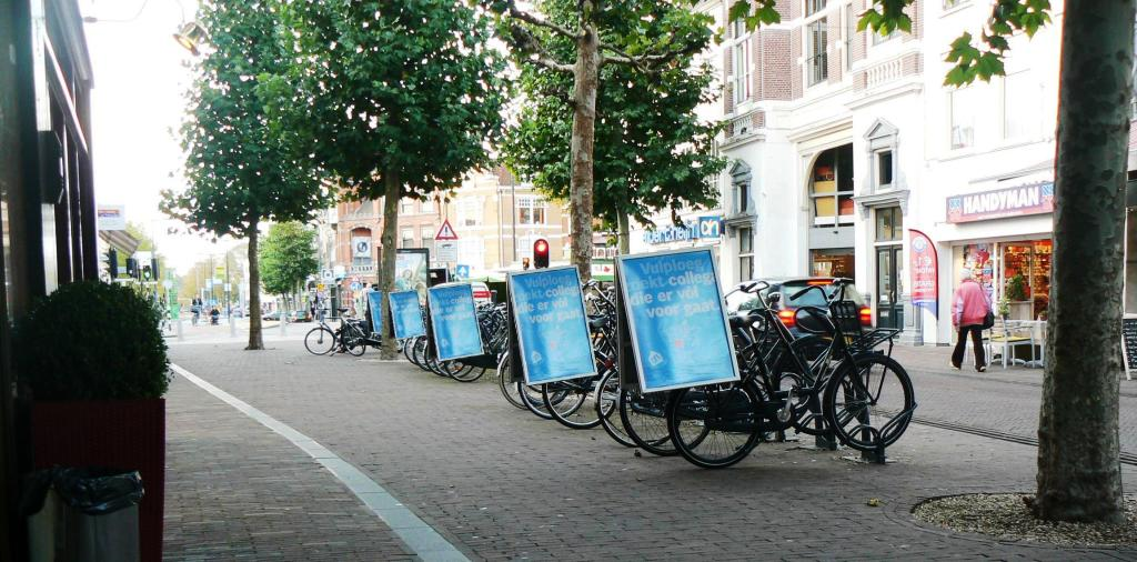 AdverBikes